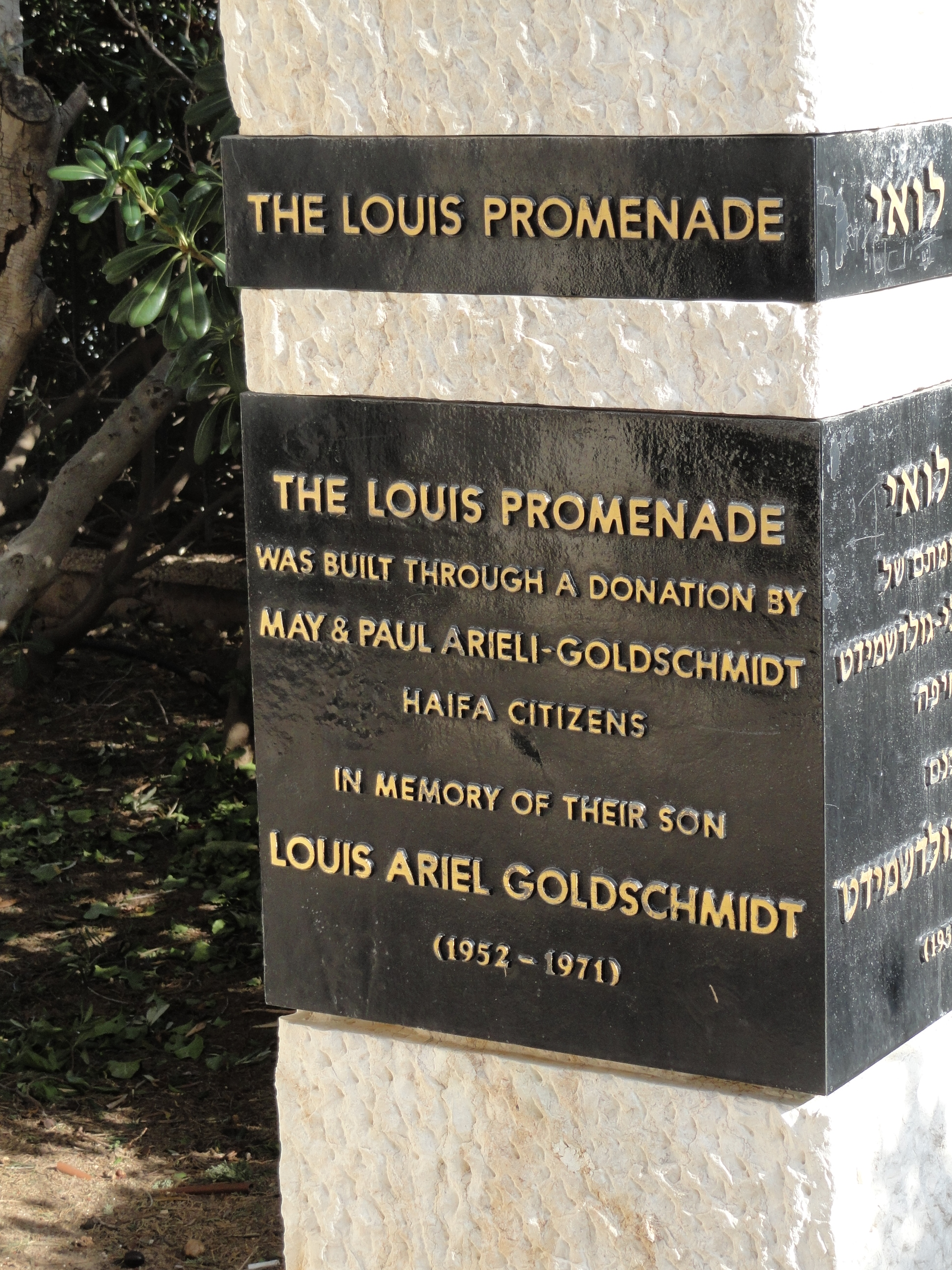 Yefe Nof street - Louis promenade. Commemorative plates